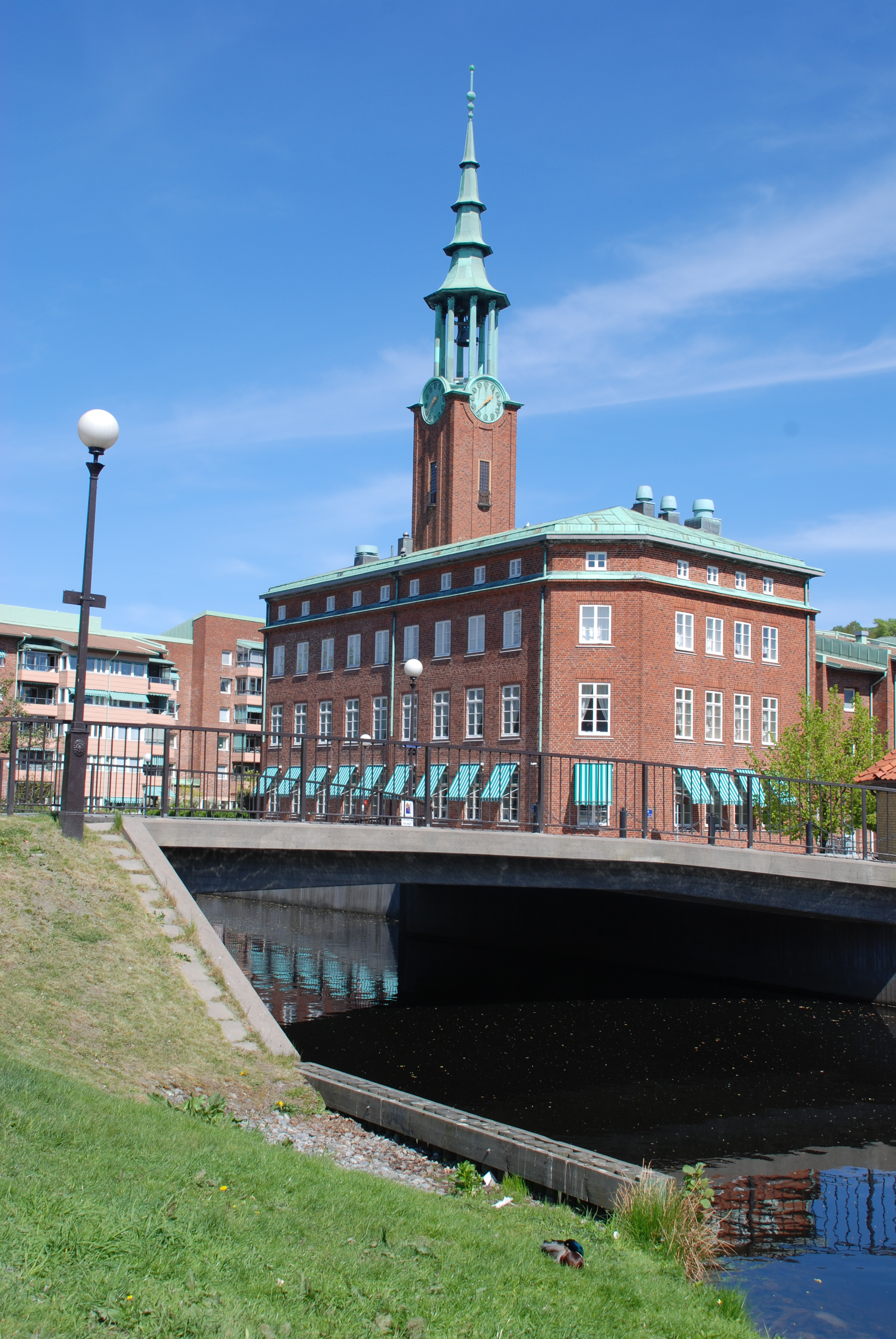 The bridge Valhallabron across Mölndalsån in Göteborg.